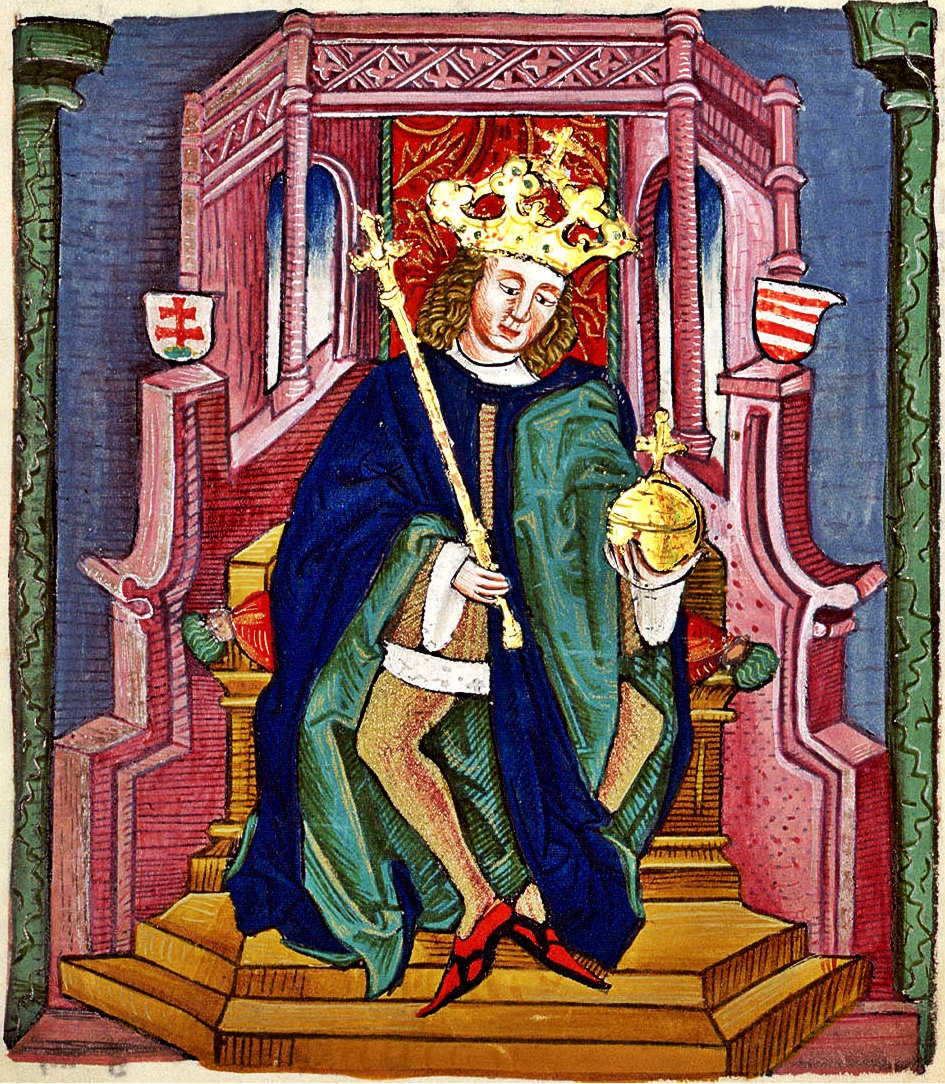 Géza I of Hungary